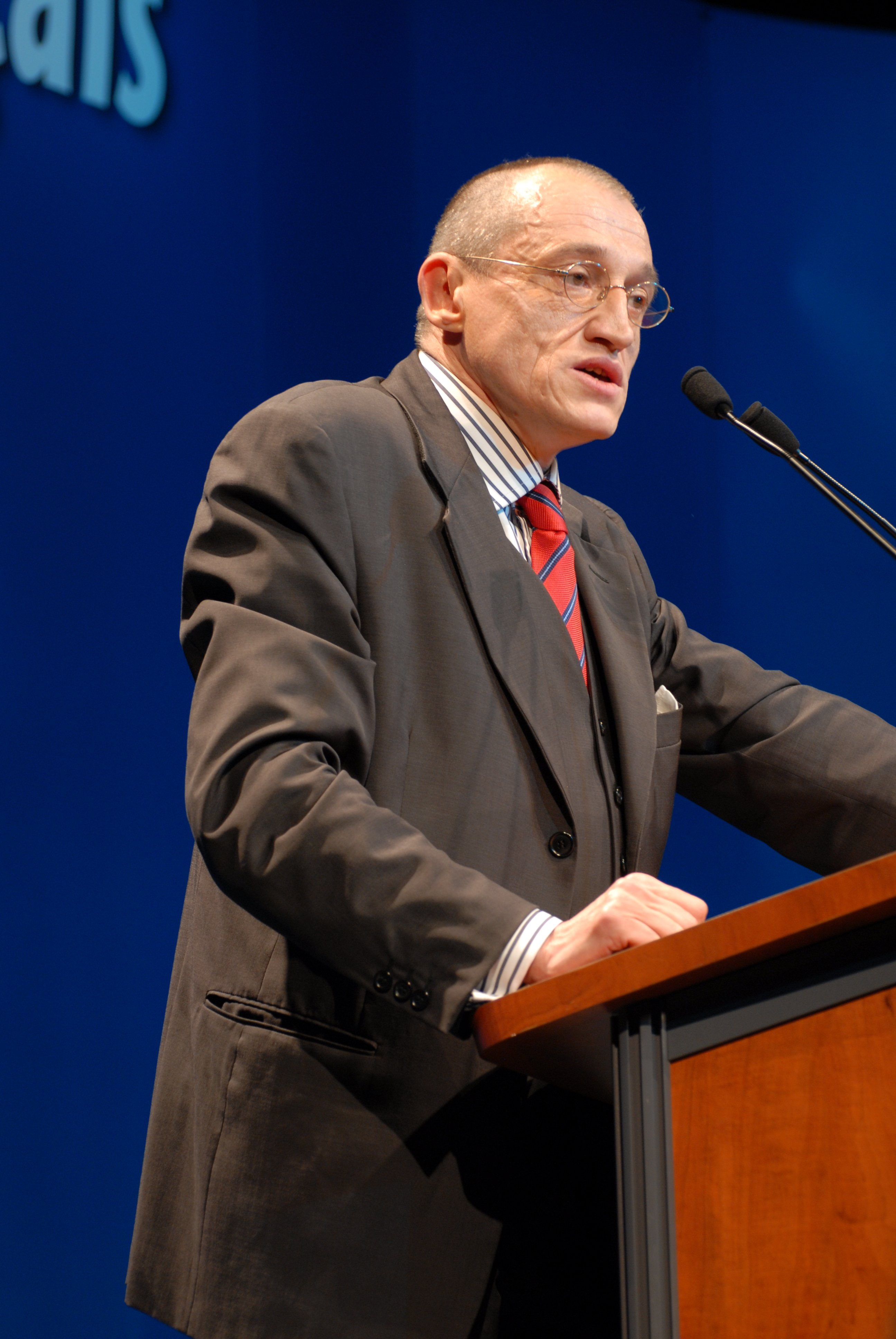 Paul-Marie Coûteaux during Philippe de Villiers's meeting in Toulouse on April, 16th 2007 for the 2007 presidential election campaign.